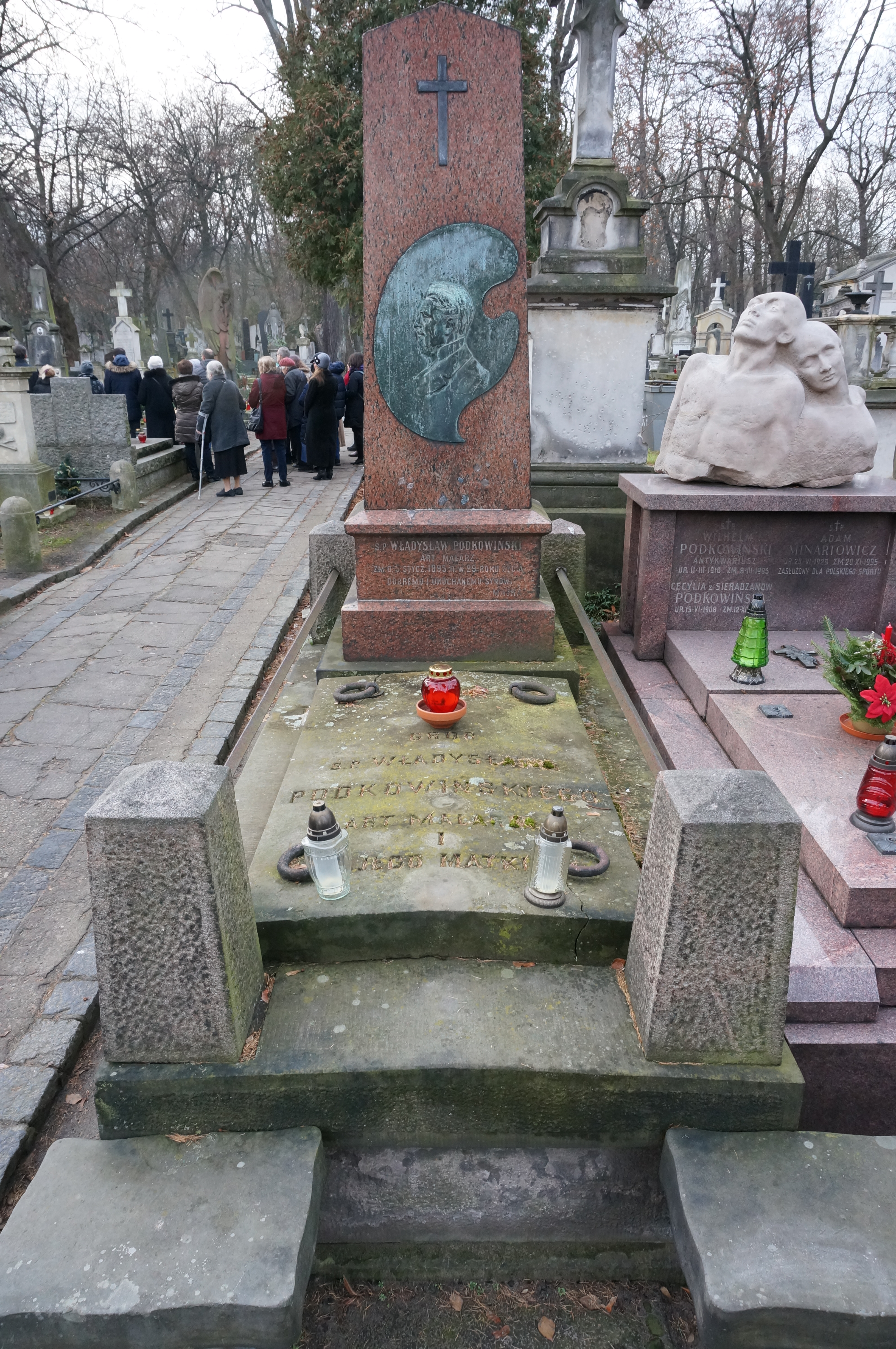 The grave of Władysław Podkowiński at the Powązki Cemetery (section 22, row 3, grave 30)